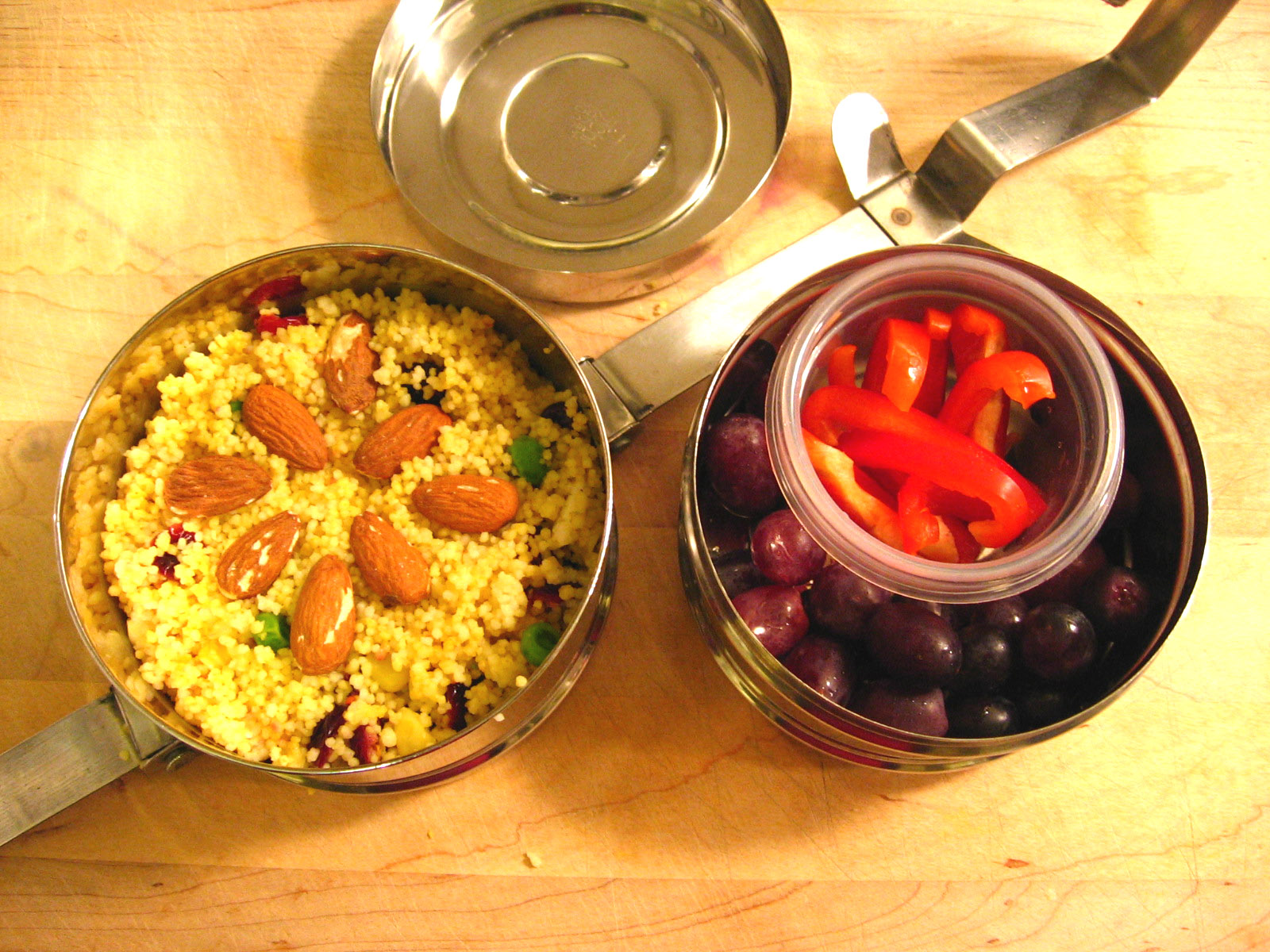 metallic lunch box